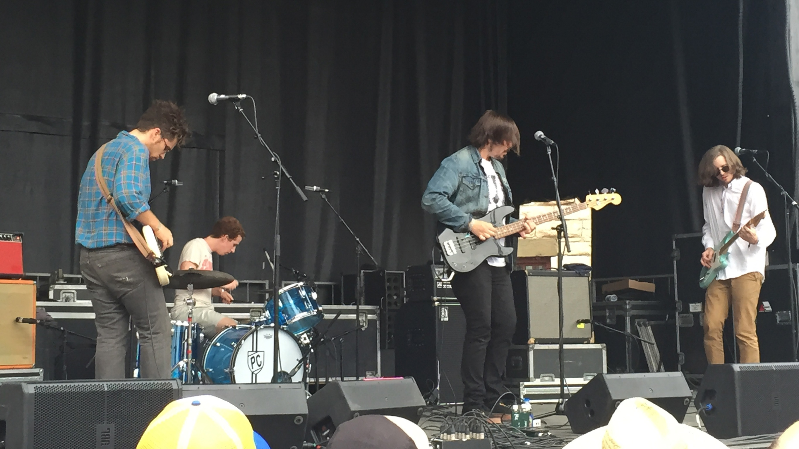 Band performance at Solid Sound Festival (North Adams MA), 27 June 2015